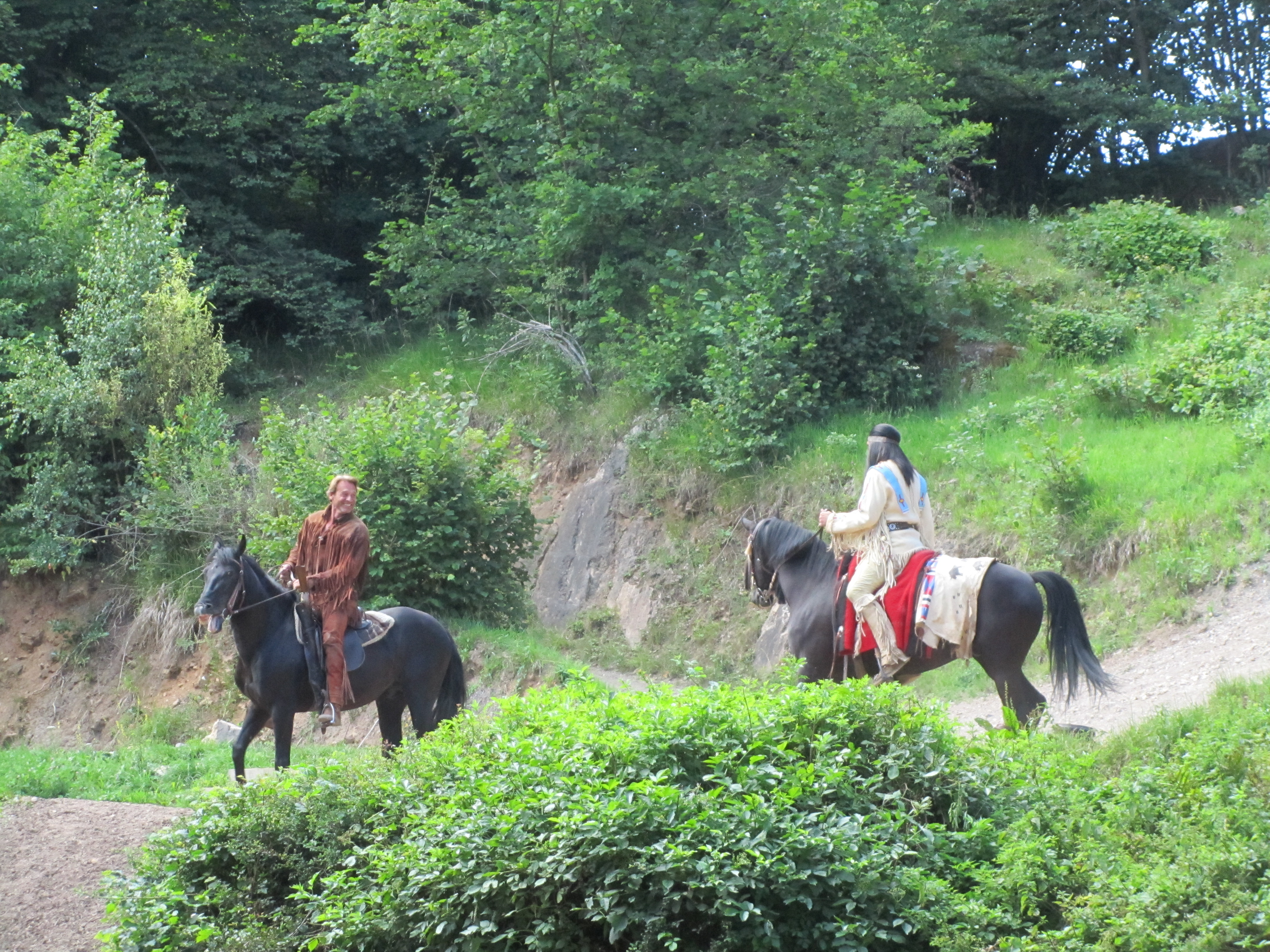 a scene with Winnetou and Old Shatterhand during the play "Der Schatz im Silbersee" at the Karl May festival in Elspe, Germany